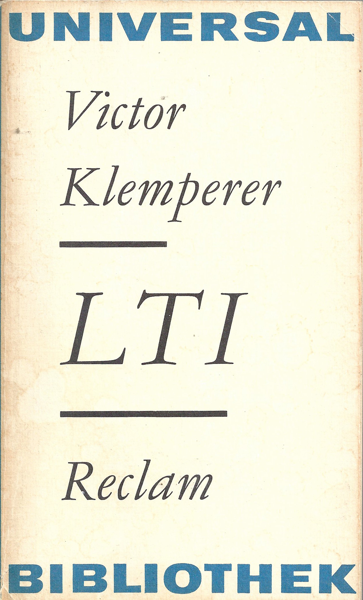 Titel Victor Klemperer, LTI – Notizbuch eines Philologen, Reclam Leipzig 1975